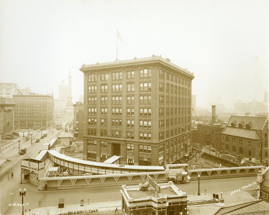 Photo of Indiana Bell Telephone building, Indianapolis, Indiana, 1930